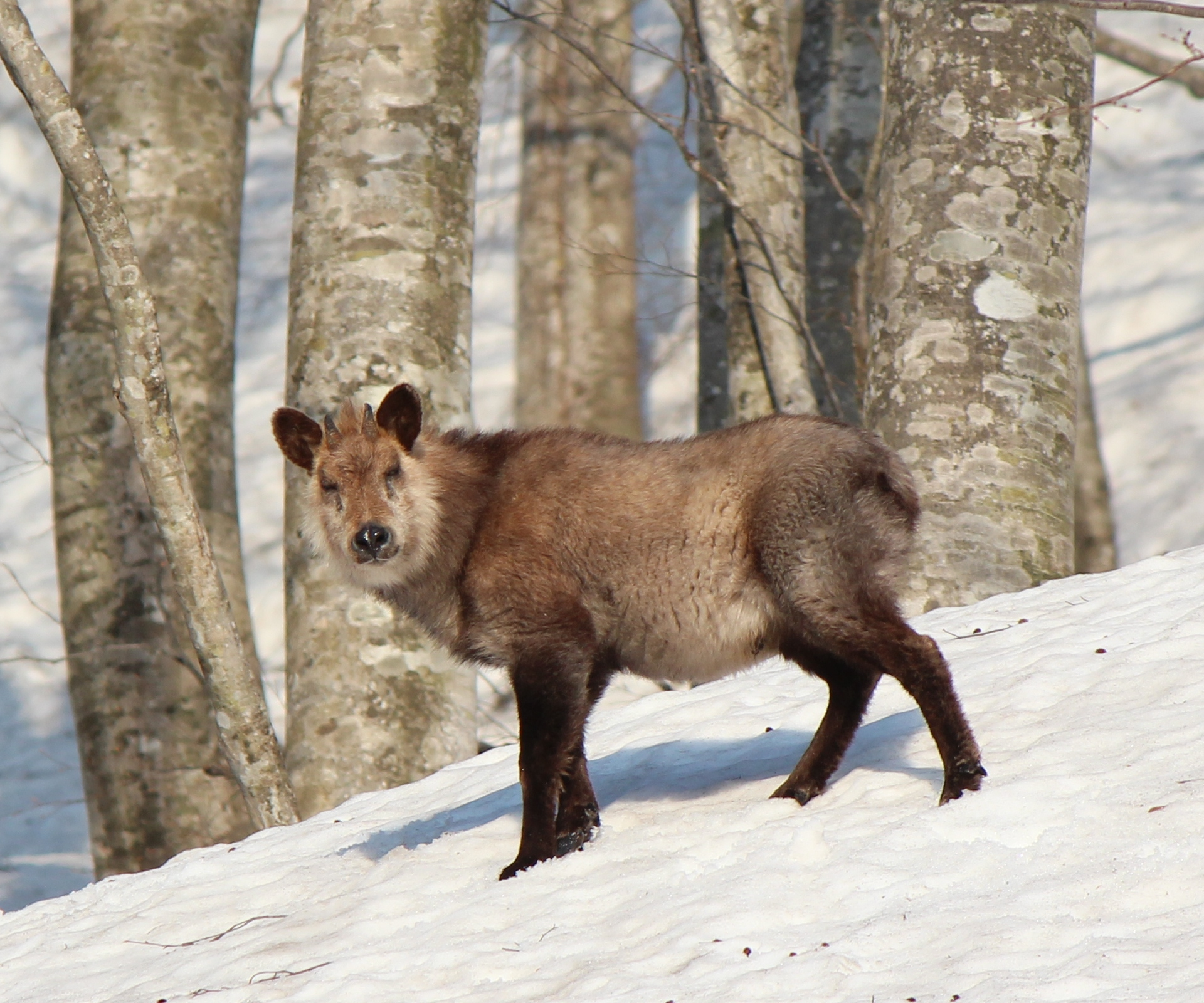 Capricornis crispus (Japanese serow) on Mount Sanpōiwa in the Ryōhaku Mountains